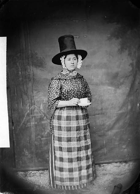 1 negative : glass, wet collodion, b&w ; 16.5 x 12 cm.